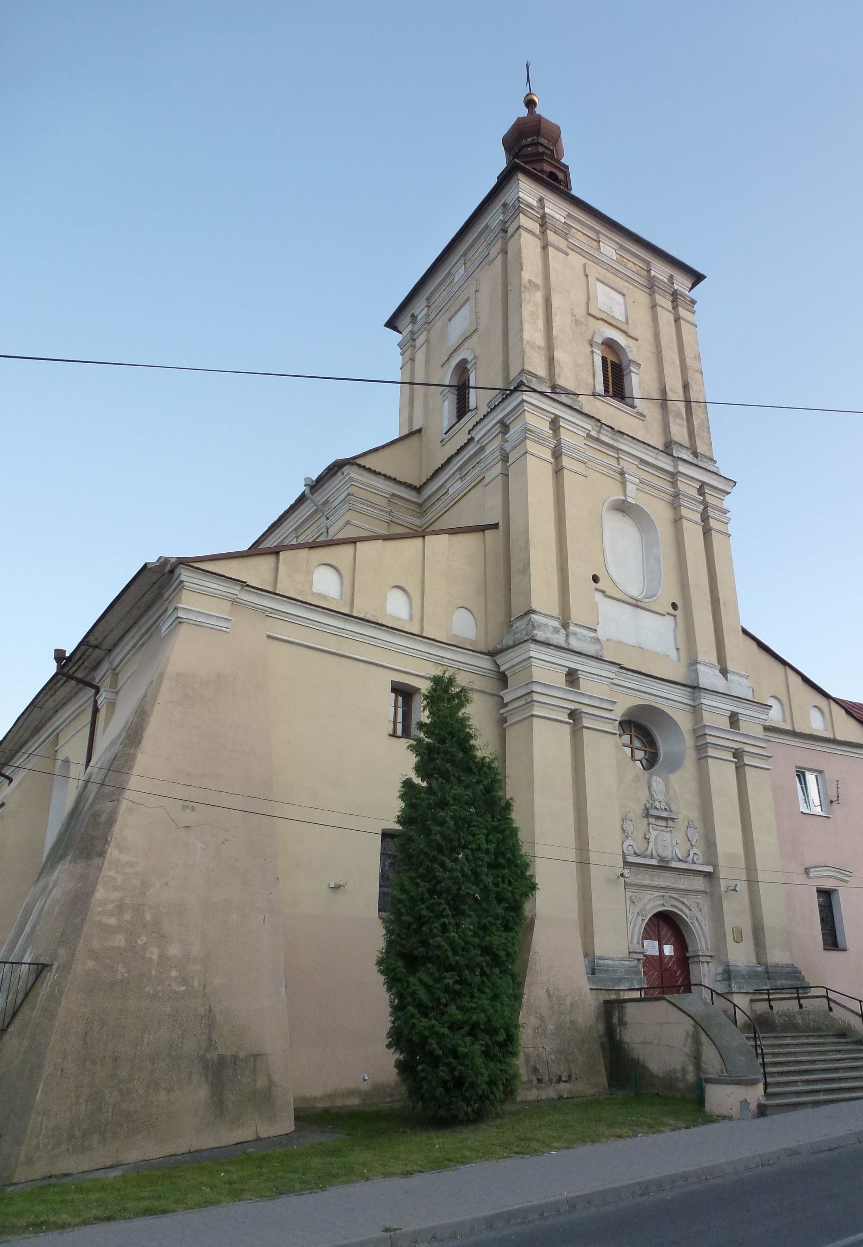 Szczebrzeszyn, Poland